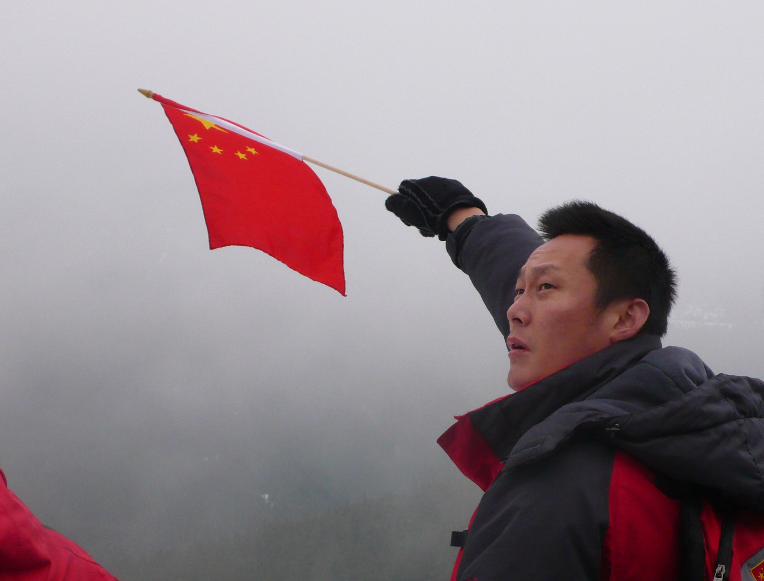 Xue-Feng Piao, coach of the chinese laidies team of ski jumping, 2011